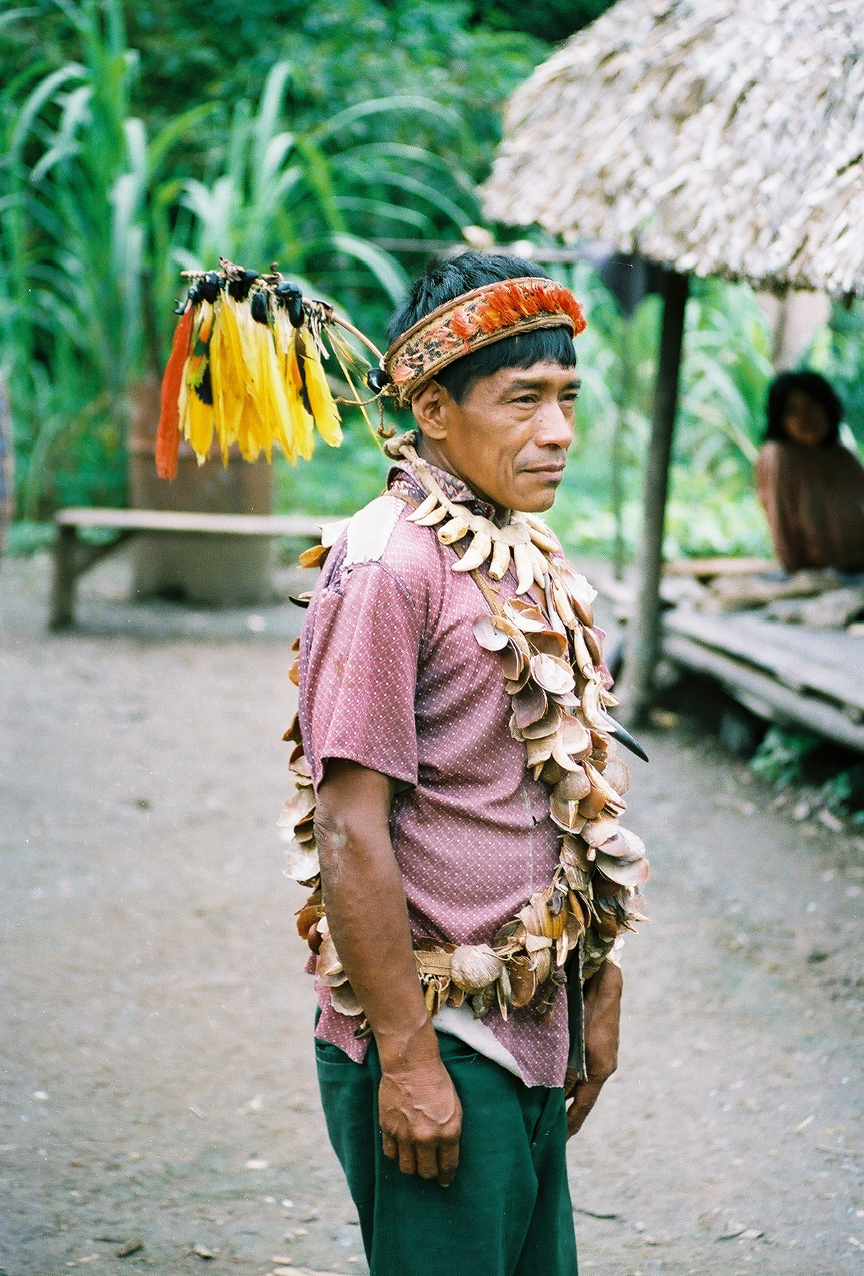 Urarina Shaman photographed by Bartholomew Dean, 1988